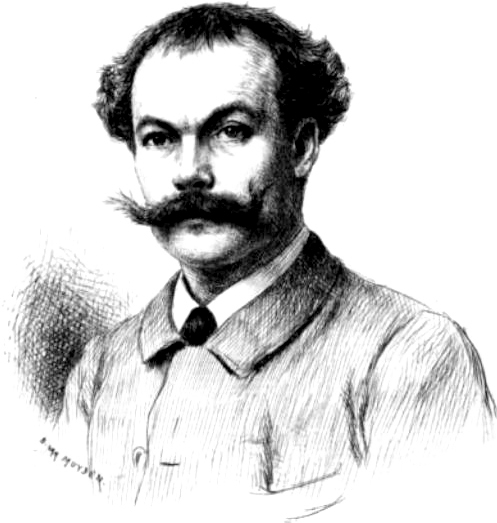 Self-portrait of Evert van Muyden (1811-1922), Swiss painter, engraver, illustrator